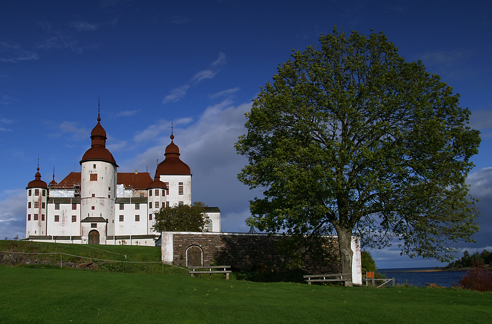 The Läckö Castle which is situated on the bank of the Vänern lake.